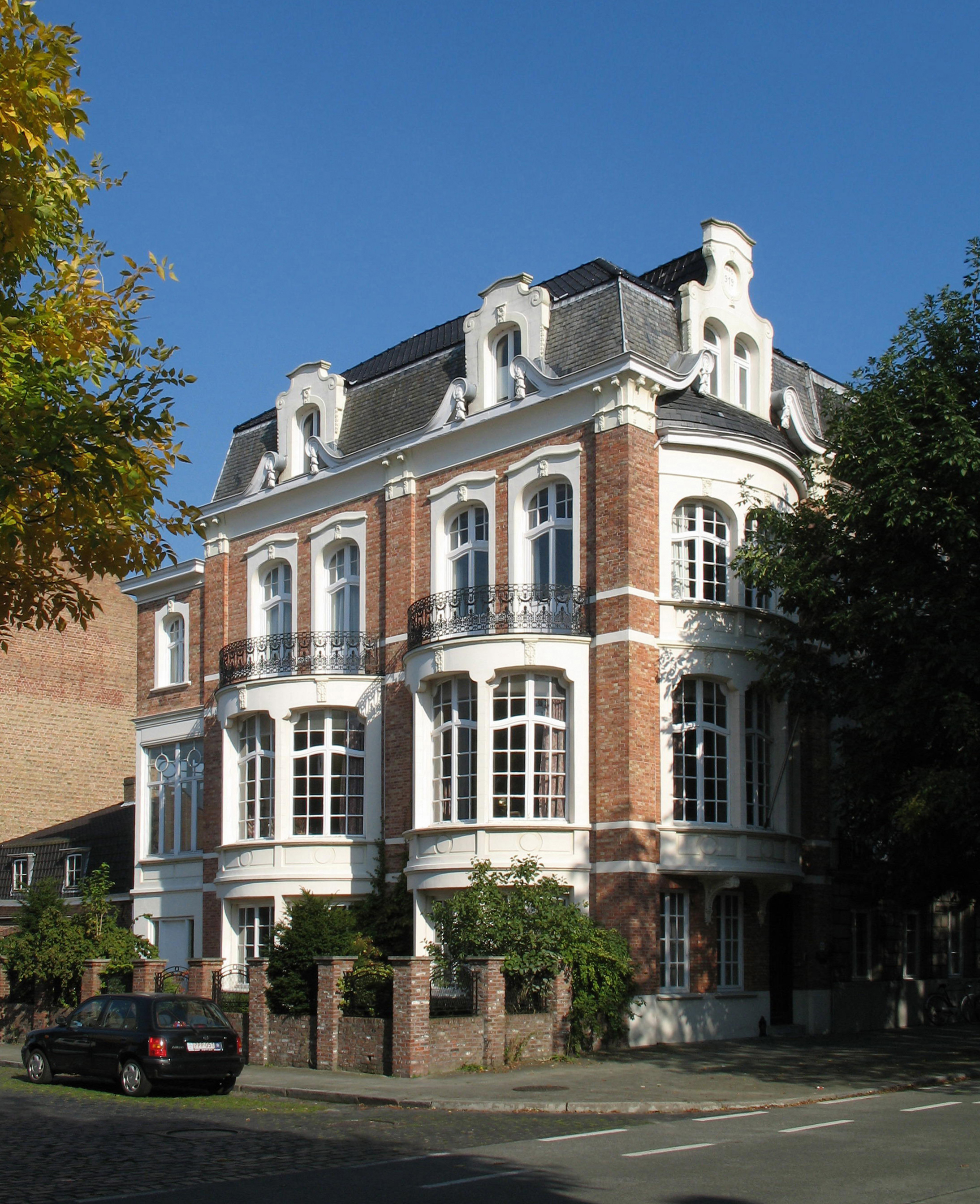 Bruges (Belgium): house, Karel de Stoutelaan 20. Built 1913. Architect: Alpnonse De Pauw (1867-1937).